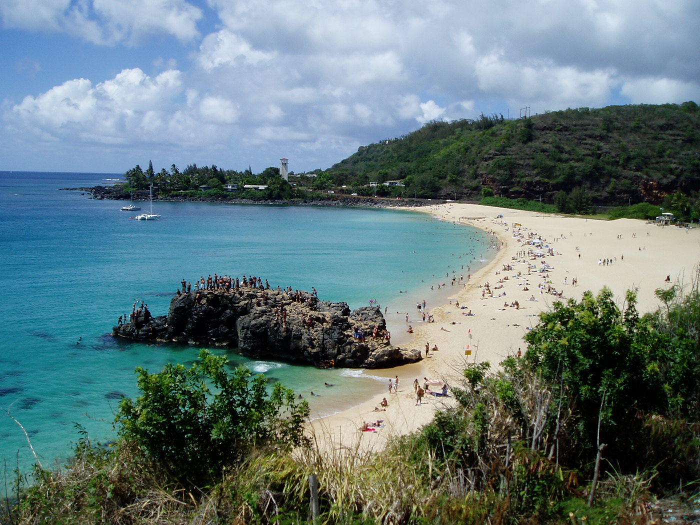 Waimea Bay Summer 2007